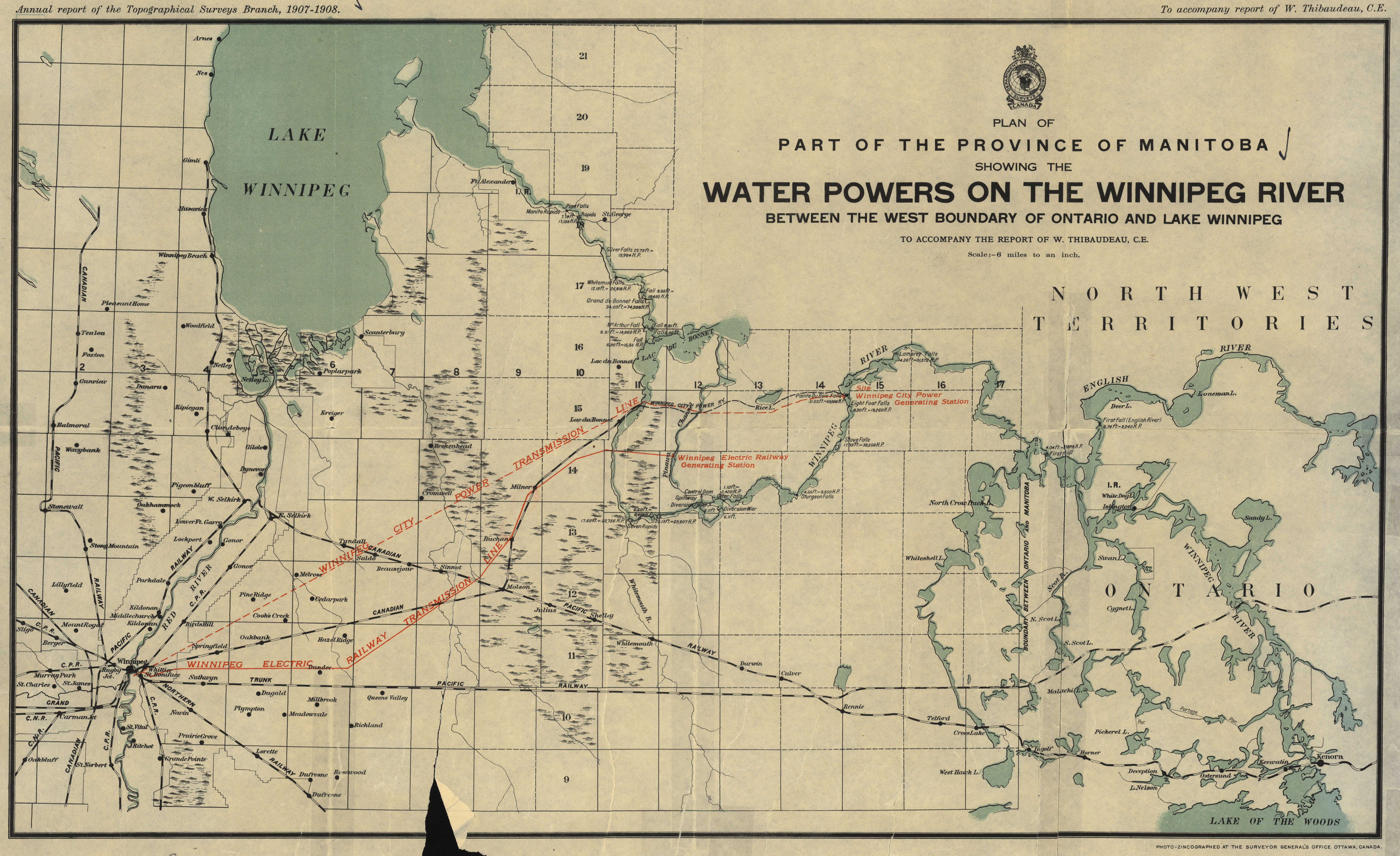 The following is the author's description of the photograph quoted directly from the photograph's Flickr page."Thibaudeau, W. Plan of part of the Province of Manitoba Showing the Wwater Powers on the Winnipeg River between the West Boundary of Ontario and Lake Winnipeg [map]. 1:380,160. In: Topographical Surveys Branch. Hydro developments (actual and planned) Winnipeg River Power and Storage Surveys. Annual report of the Topographical Surveys Branch 1907-1908. [Ottawa]: Topographical Surveys Branch, 1908 Since 1906 the Winnipeg River has been the most important source of hydro-electric energy for Manitoba. This map shows an early engineering survey of the river, and indicates potential sites for the establishment of power plants. Construction of the first power station was begun in 1903, on the Pinawa Channel of the Winnipeg river, and finished in 1906. In subsequent years, stations were built at Pointe du Bois, Slave falls, Seven Sisters (Rapids), McArthur Falls, Great (Grand du Bonnet) Falls, and Pine Falls.(Warkentin and Ruggles. Historical Atlas of Manitoba. map 267, p. 506)Source: University of Manitoba Libraries Map Collection "